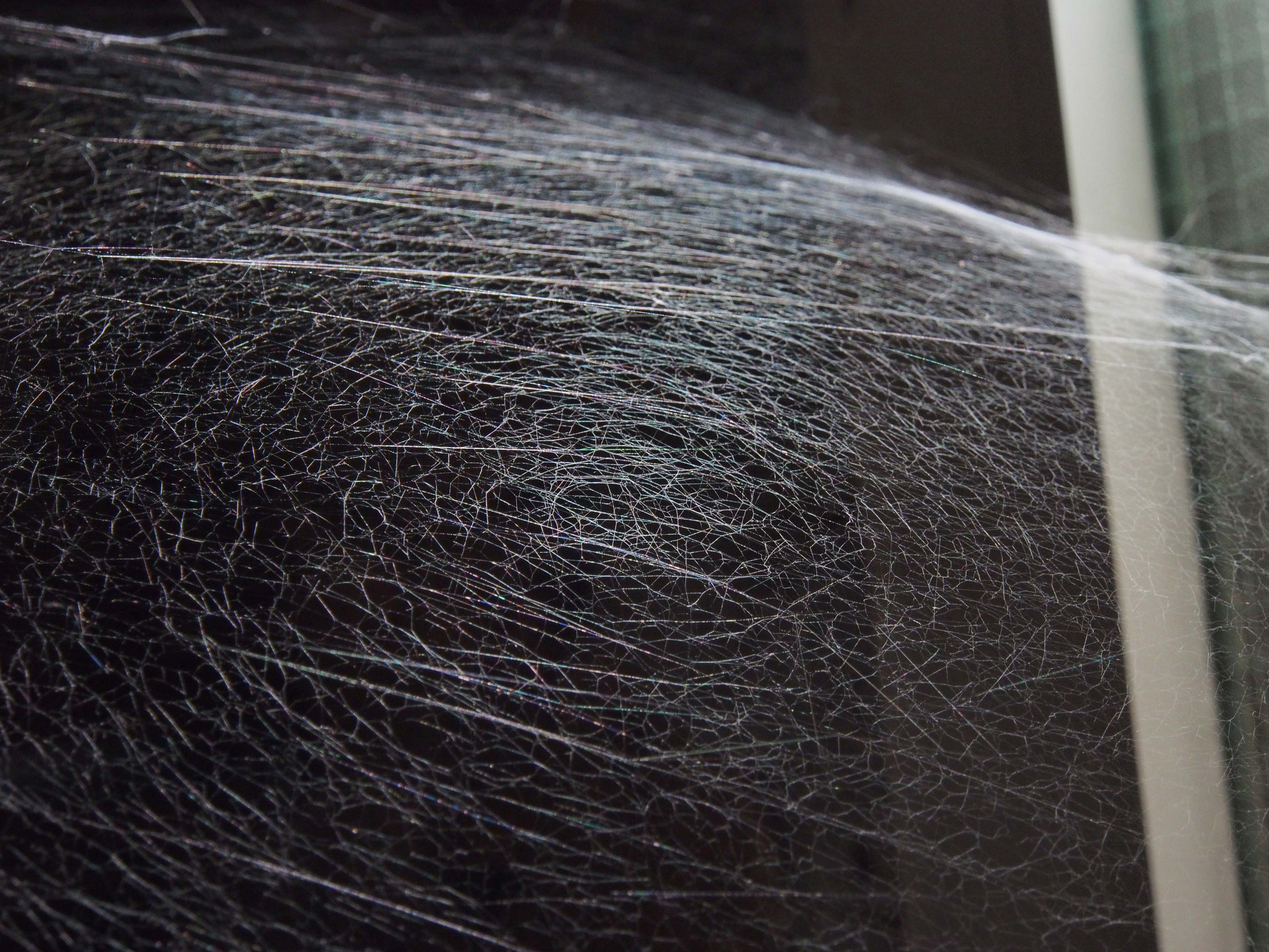 Pholcus phalangioides web. Losar de la Vera (Cáceres, España).